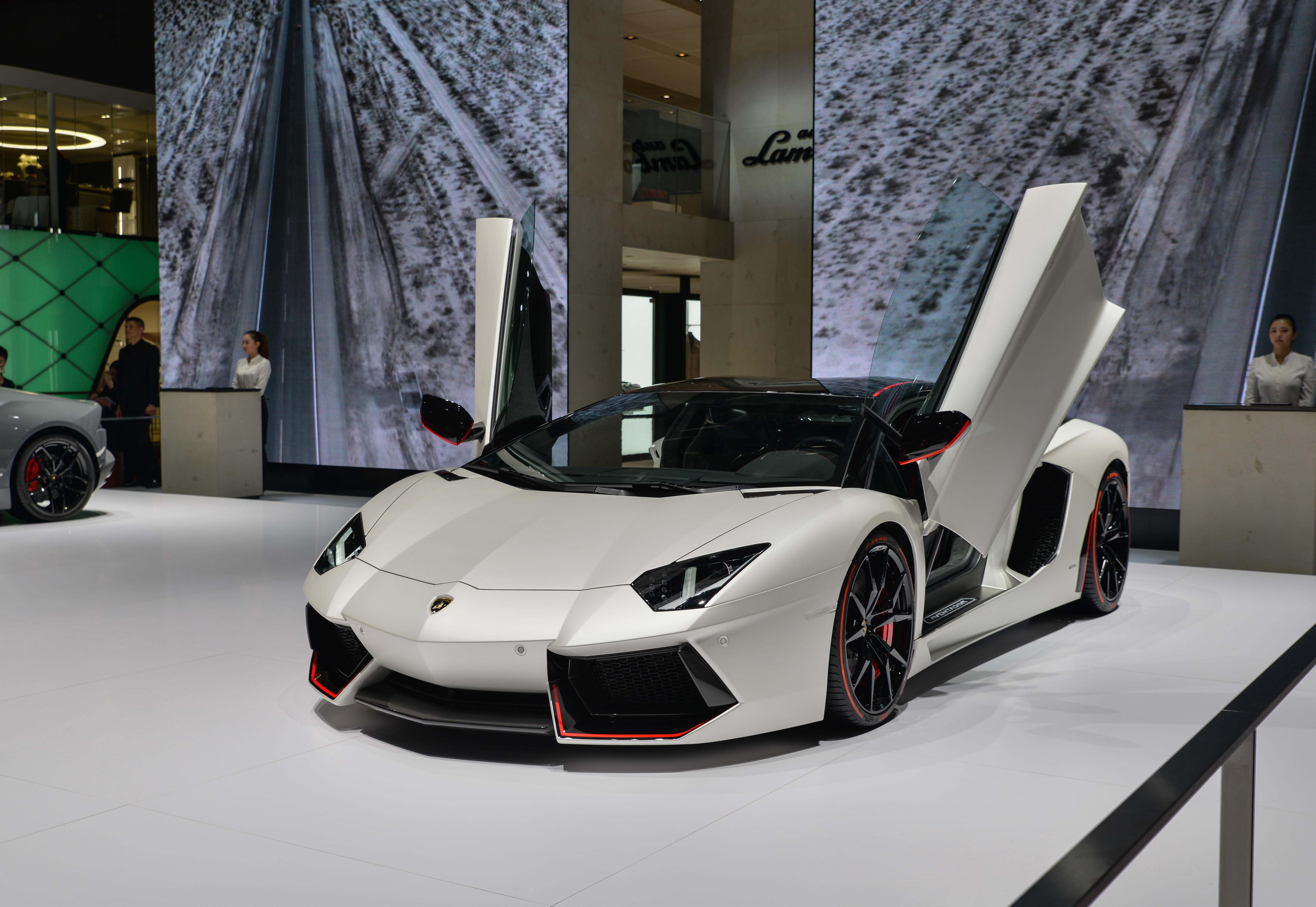 ENGINE: · 6.5L engine/12 cylinders/V60° · Power 700CV (515 KW) at 8250 rpm · Torque 690N·m at 5500 rpm GEARBOX: · Robotized gearbox "ISR" (Independent shifting Rods) · Electornically controlled · All-Wheel Drive Auto Shanghai 2015